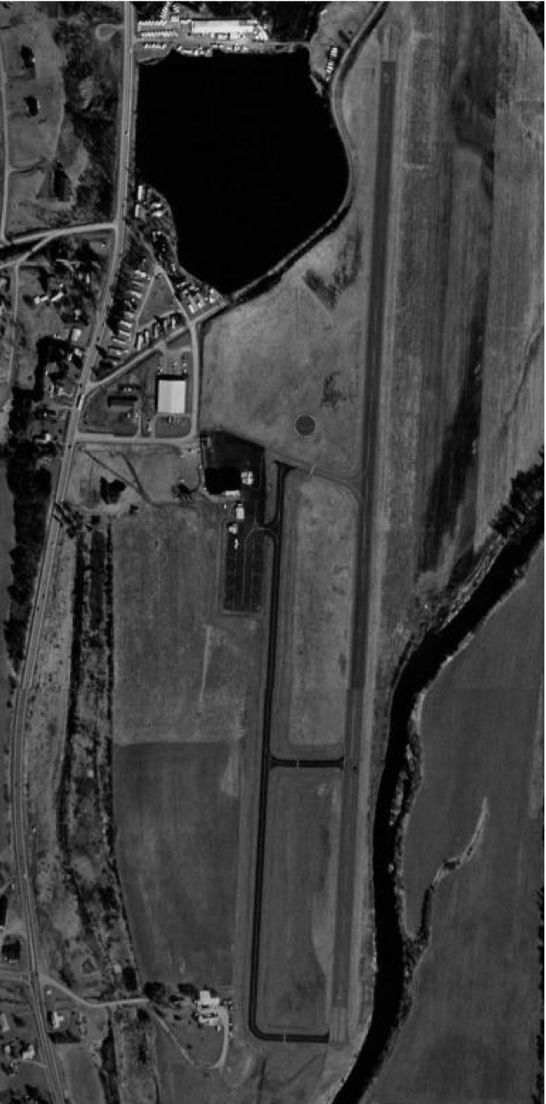 USGS image of Norwich Lt. Warren Eaton Airport in Norwich, New York, United States.